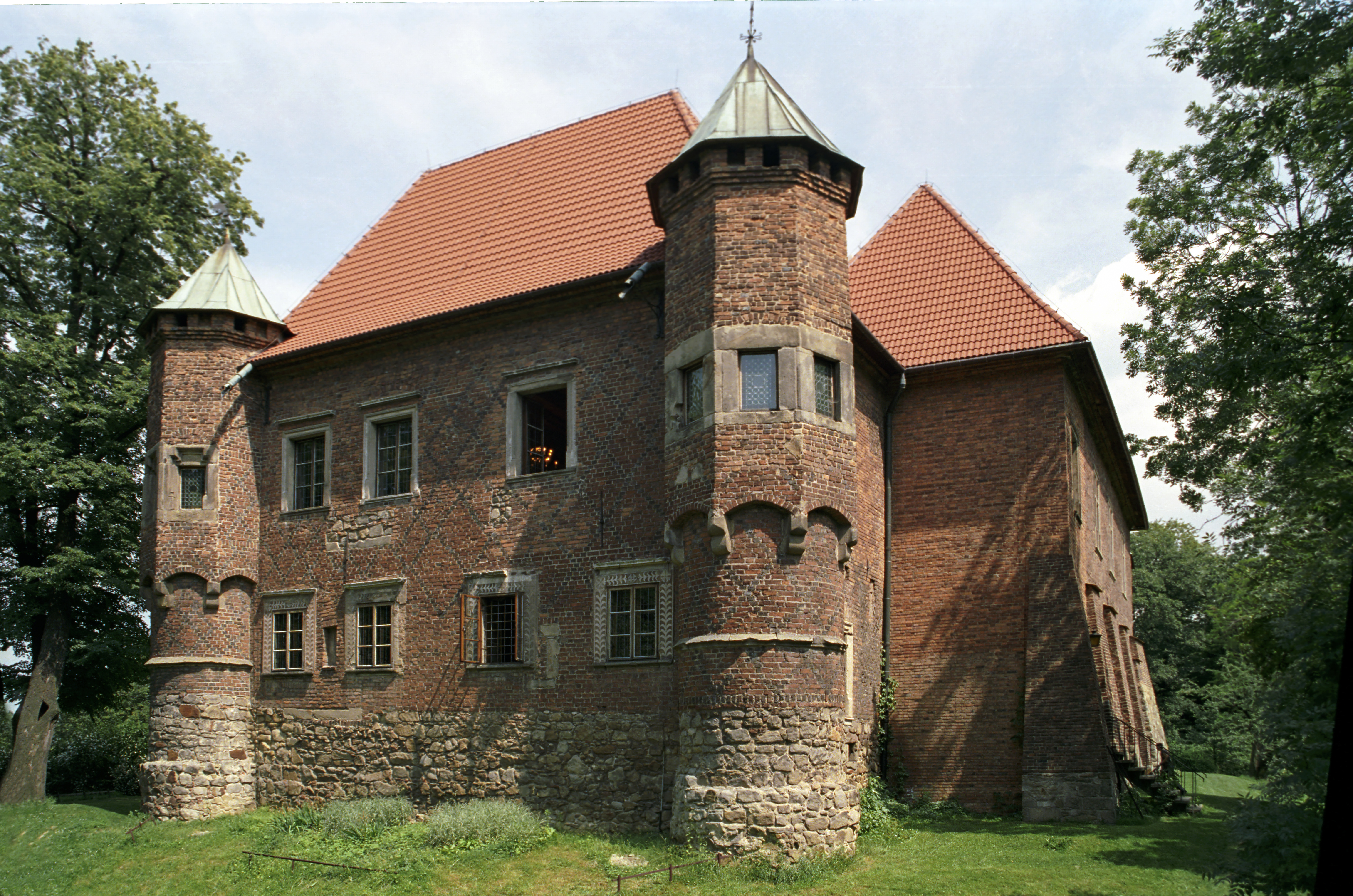 Poland, Debno Castle